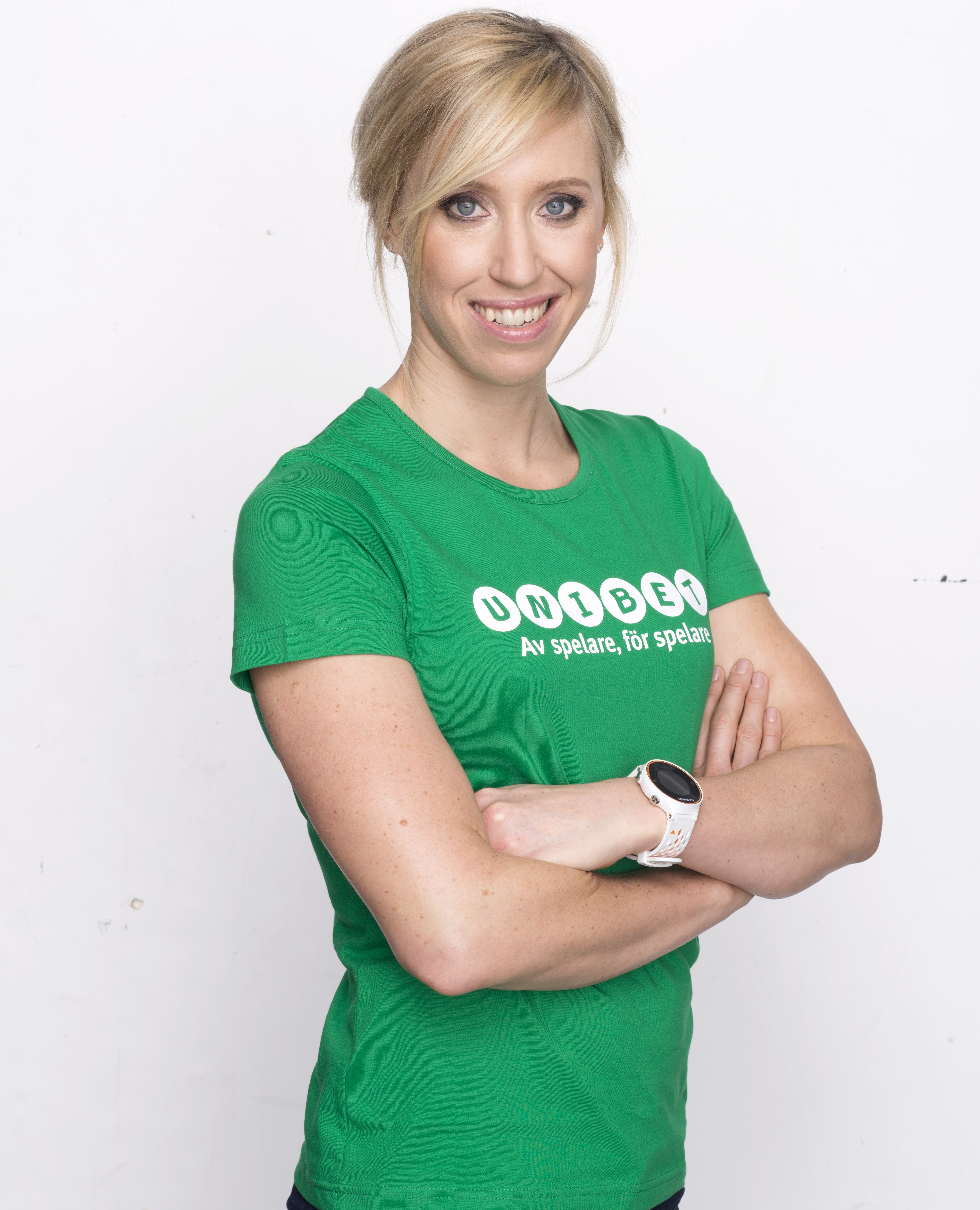 Swedish triathlete Lisa Nordén in a promo image for Unibet.